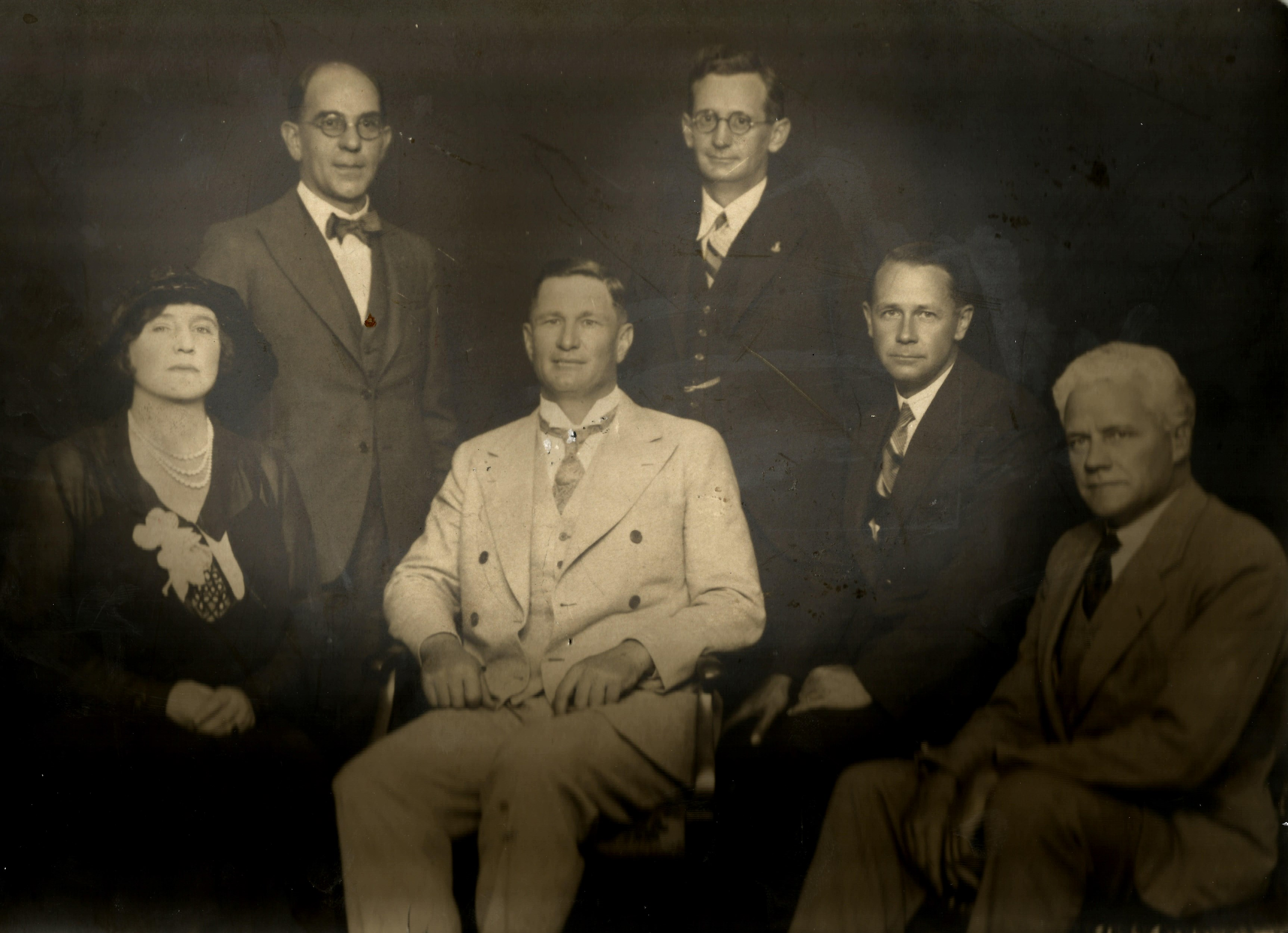 FAK Eerste Uitvoerende komitee